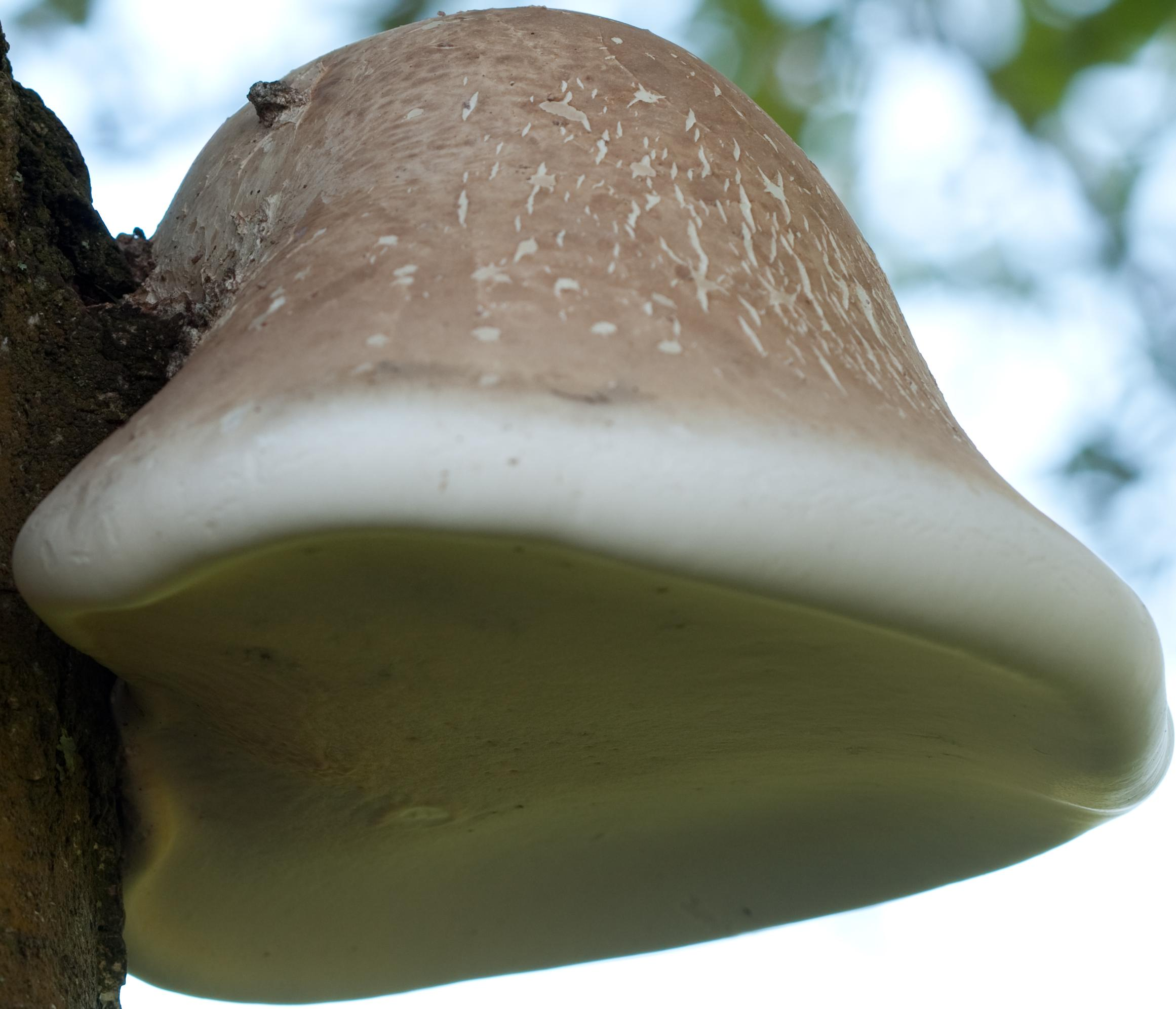 fungi